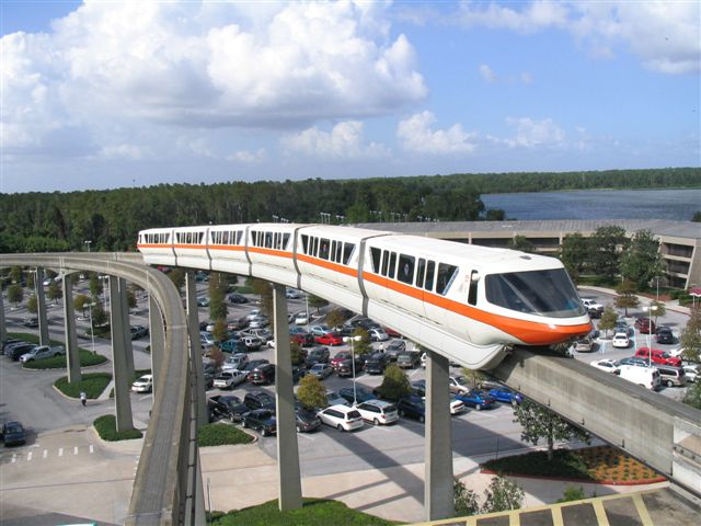 Picture taken by myself, Scott